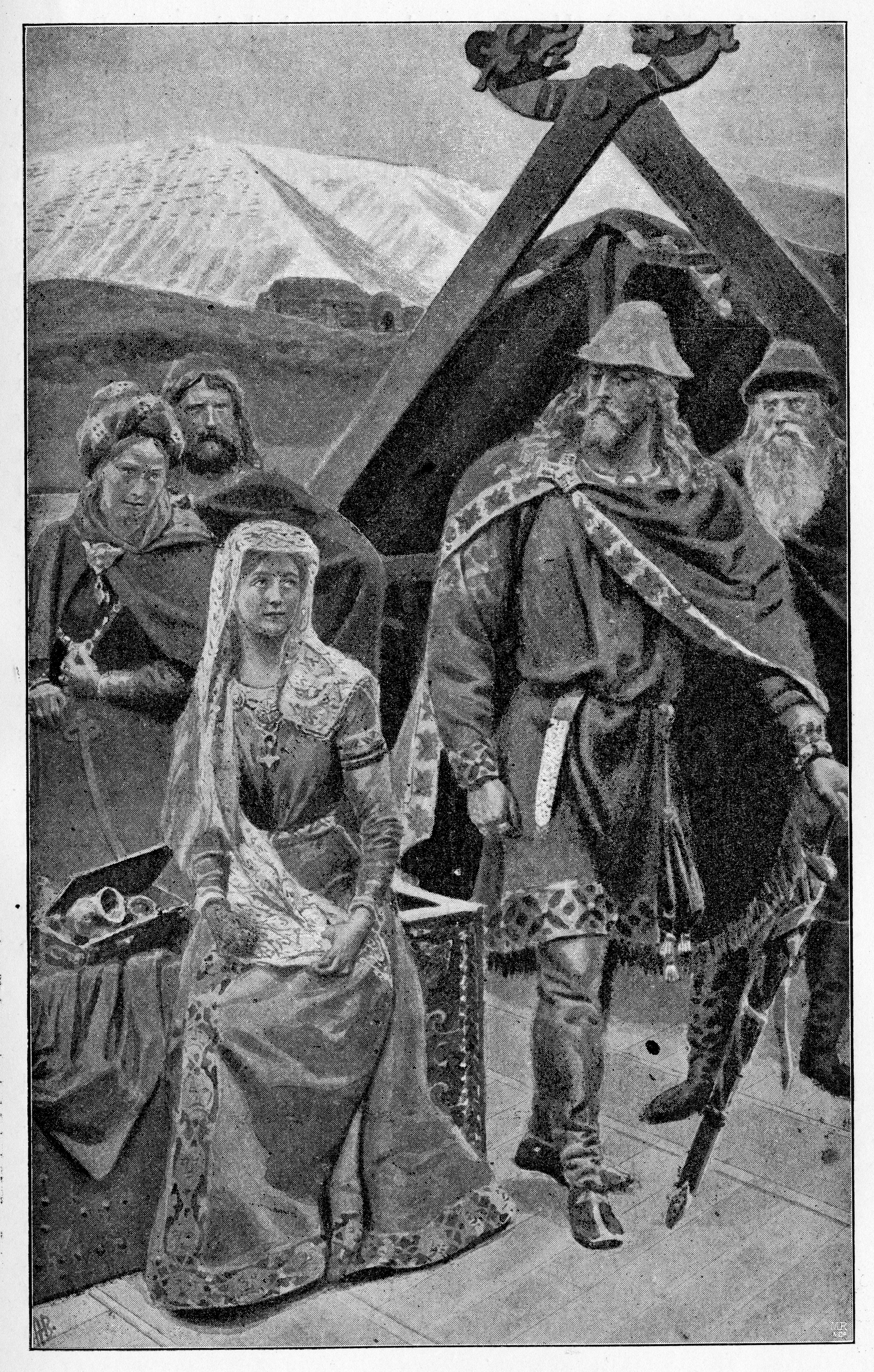 From the Laxdæla Saga: "So Hrefna sat still with the head-dress on. Kjartan looked at her heedfully and said, 'I think the coif becomes you very well, Hrefna,' says he, 'and I think it fits the best that both together, coif and maiden, be mine.' Illustration from "Vore fædres liv" : karakterer og skildringer fra sagatiden / samlet og udggivet af Nordahl Rolfsen ; oversættelsen ved Gerhard Gran., Kristiania: Stenersen, 1898. English description translated from Icelandic by Muriel A C Press in 1880.